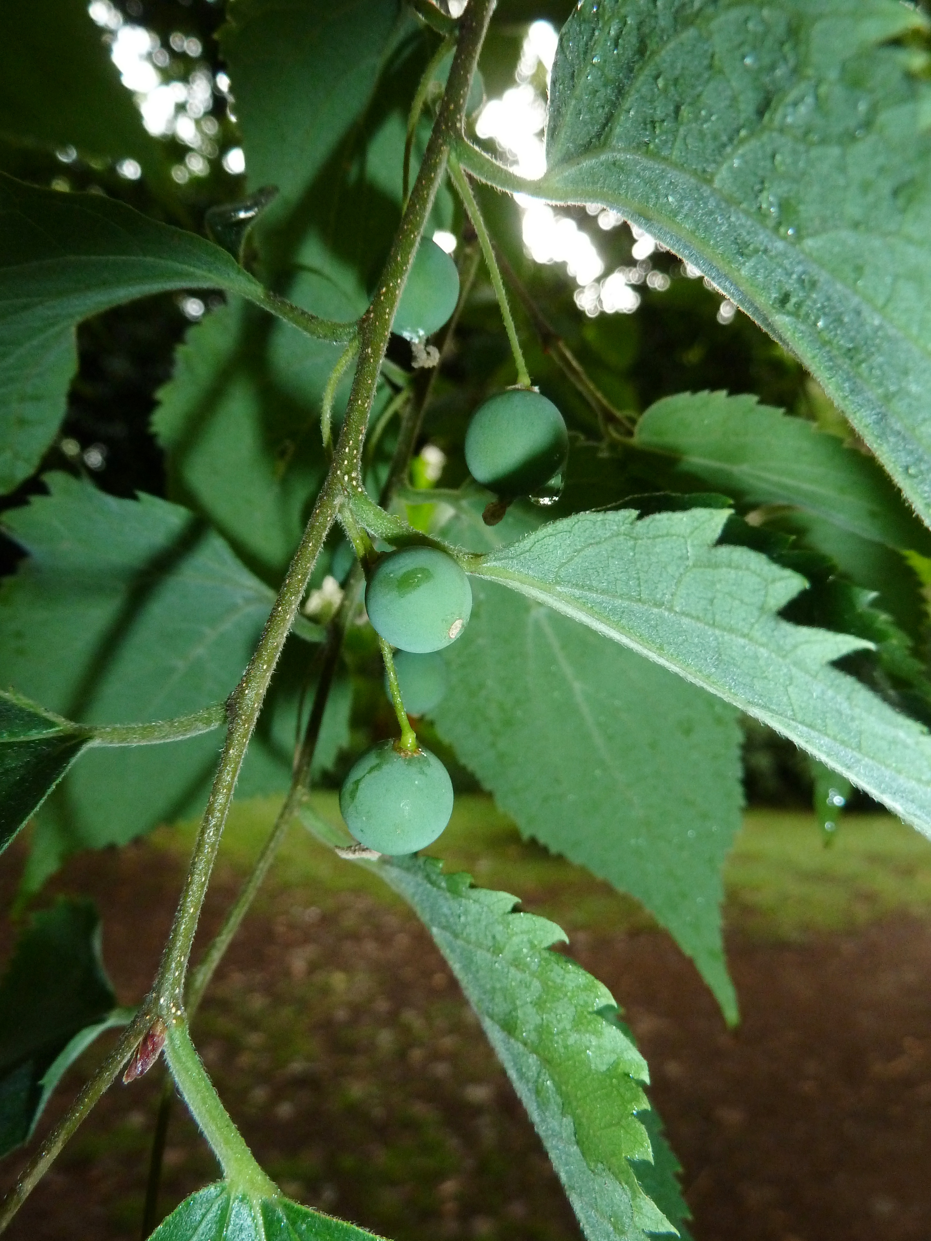 Foliage and fruit of a Nettle tree in the Manie van der Schijff Botanical Garden, Pretoria